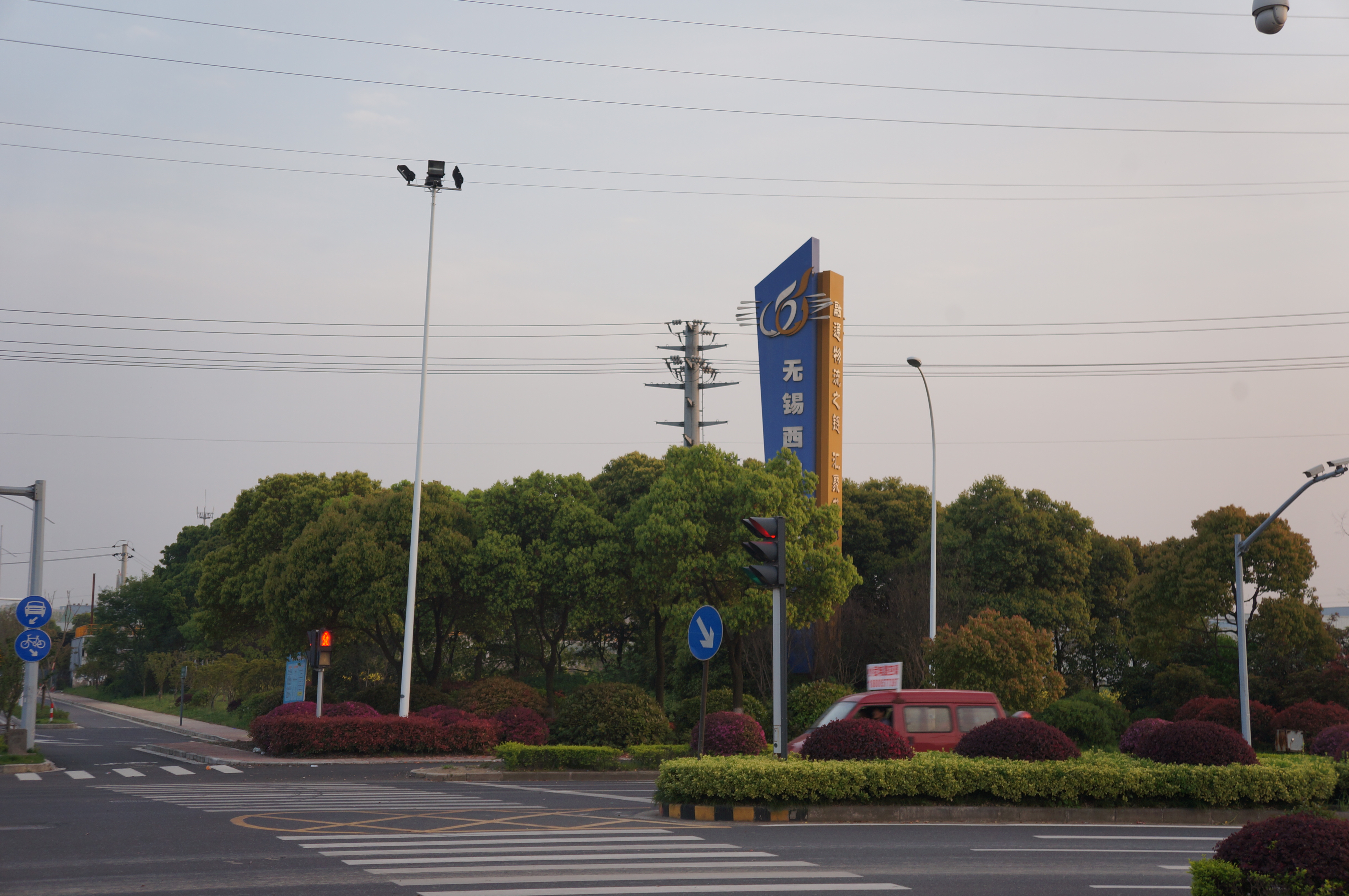 201704 Sign of Wuxixi Logistic Park. I did not have time to visit Wuxixi Station